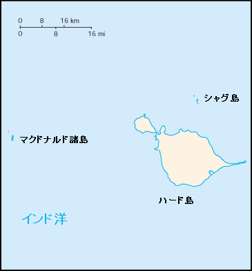 Heard Island